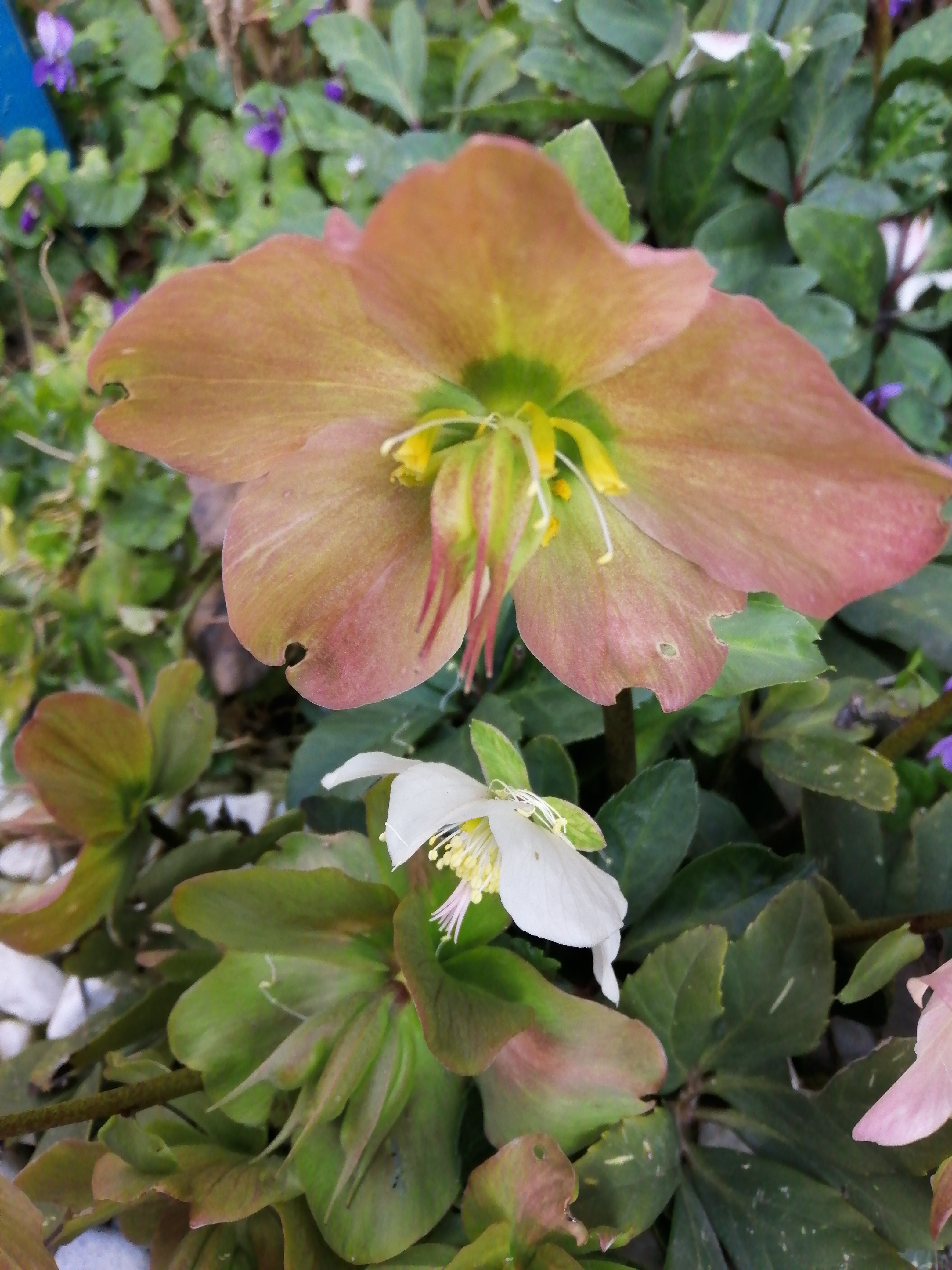 Hellebore (three stages of the flower)